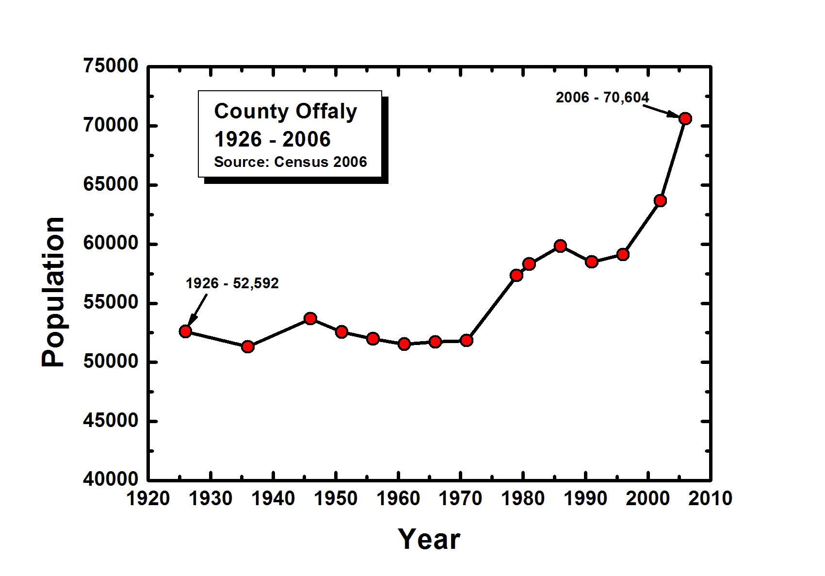 Population of County Offaly from 1926 to 2006